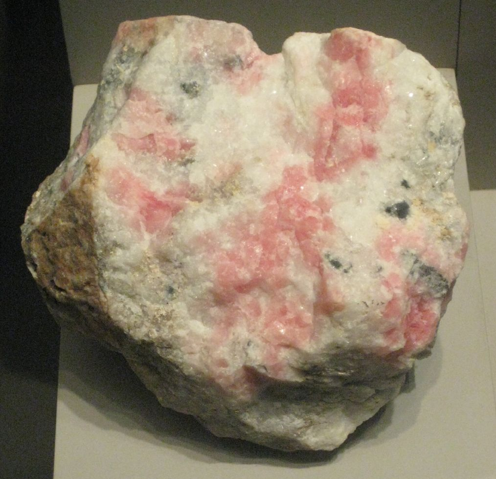 Na4BeAlSi4O12Cl Ilimaussaq, Kvanefjeld, Greenland, on display in the Smithsonian National Museum of Natural History in Washington D.C.